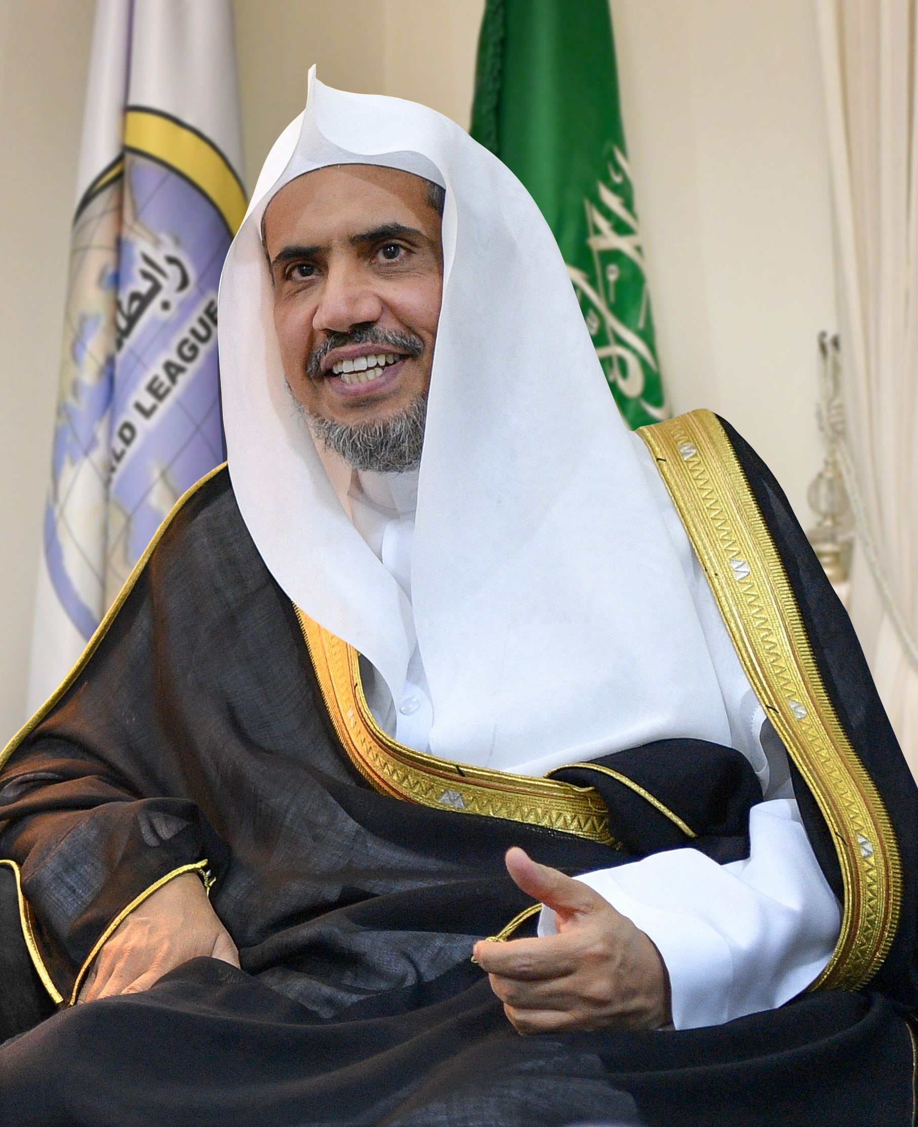 Headshot of Dr. Mohammad bin Abdulkarim Al-Issa, Secretary General of the Muslim World League